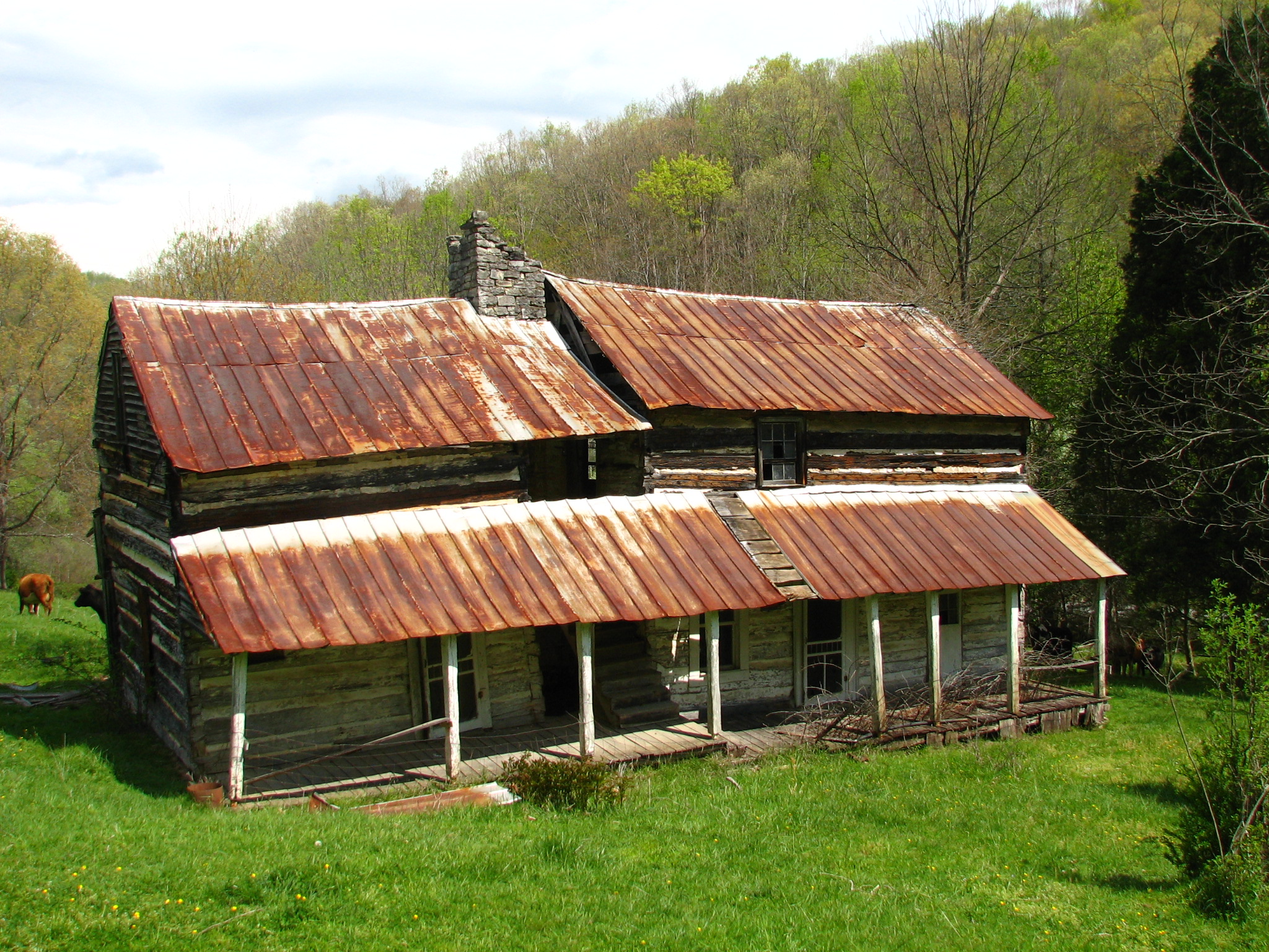 Crabtree-Blackwell farm located in Blackwell's Chapel or Blackwell, VA. The farm is located off of Moore's Creek route 686.